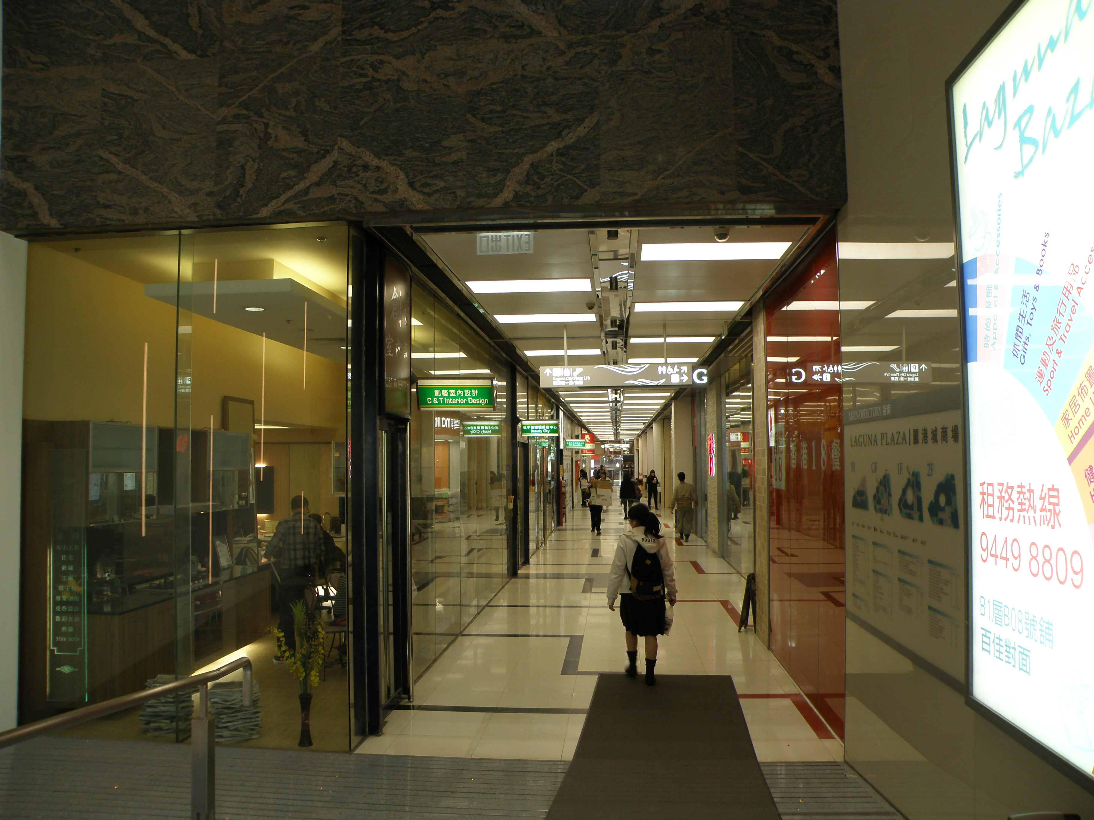 Laguna Plaza in Lam Tin, Hong Kong.